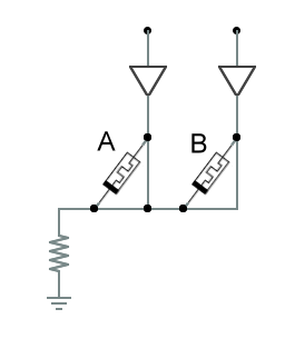 Memristor-Based IMPLY Logic gate